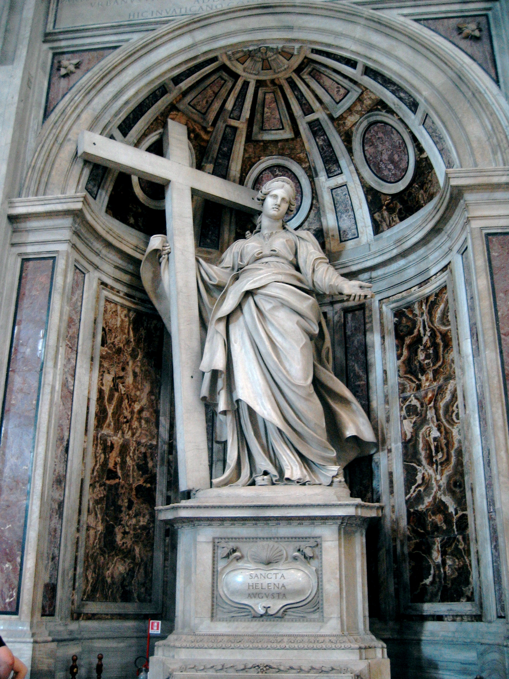 The shrine to Saint Helena in Basilica di San Pietro